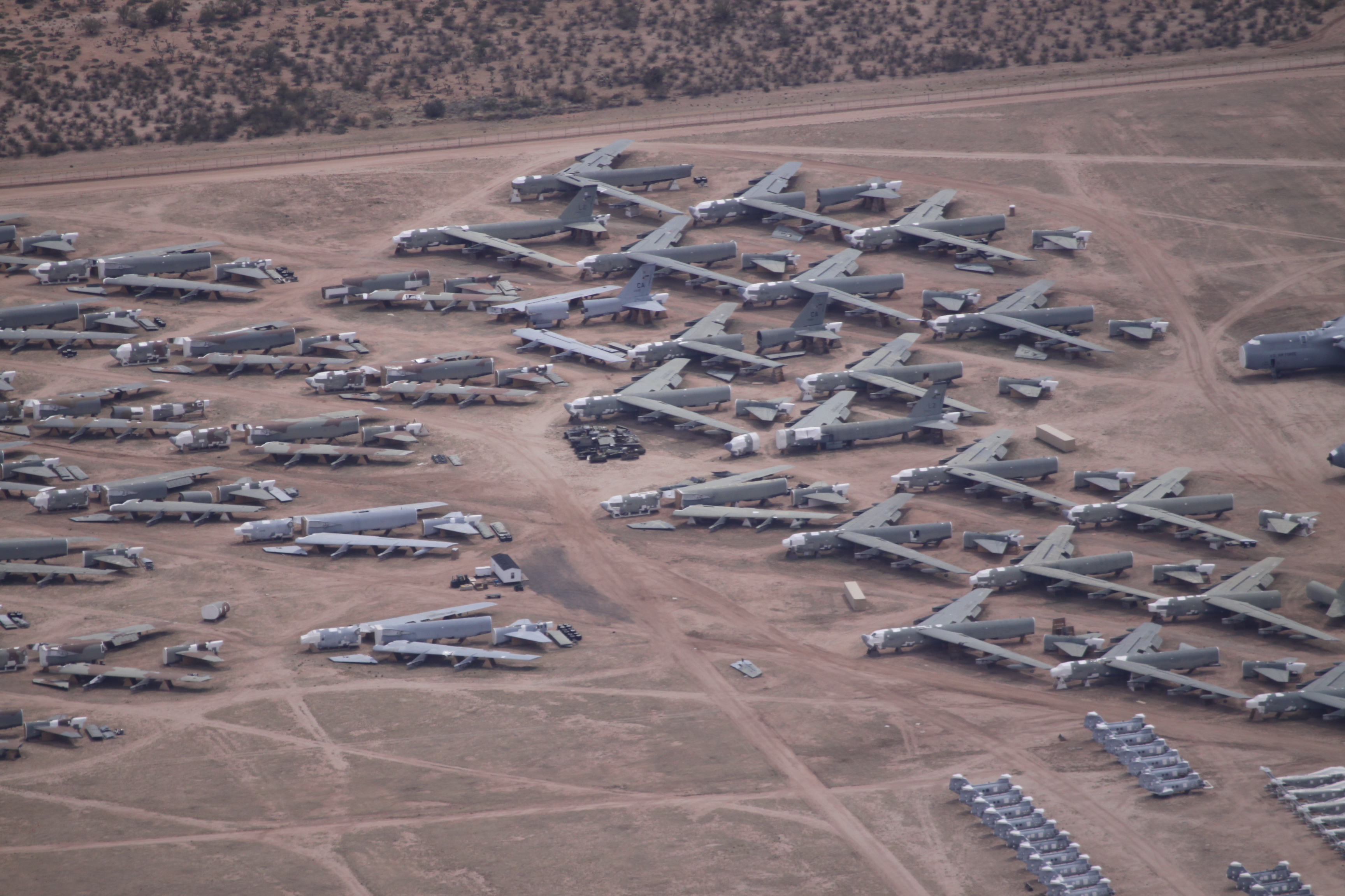 At AMARC - Davis Monthan AFB